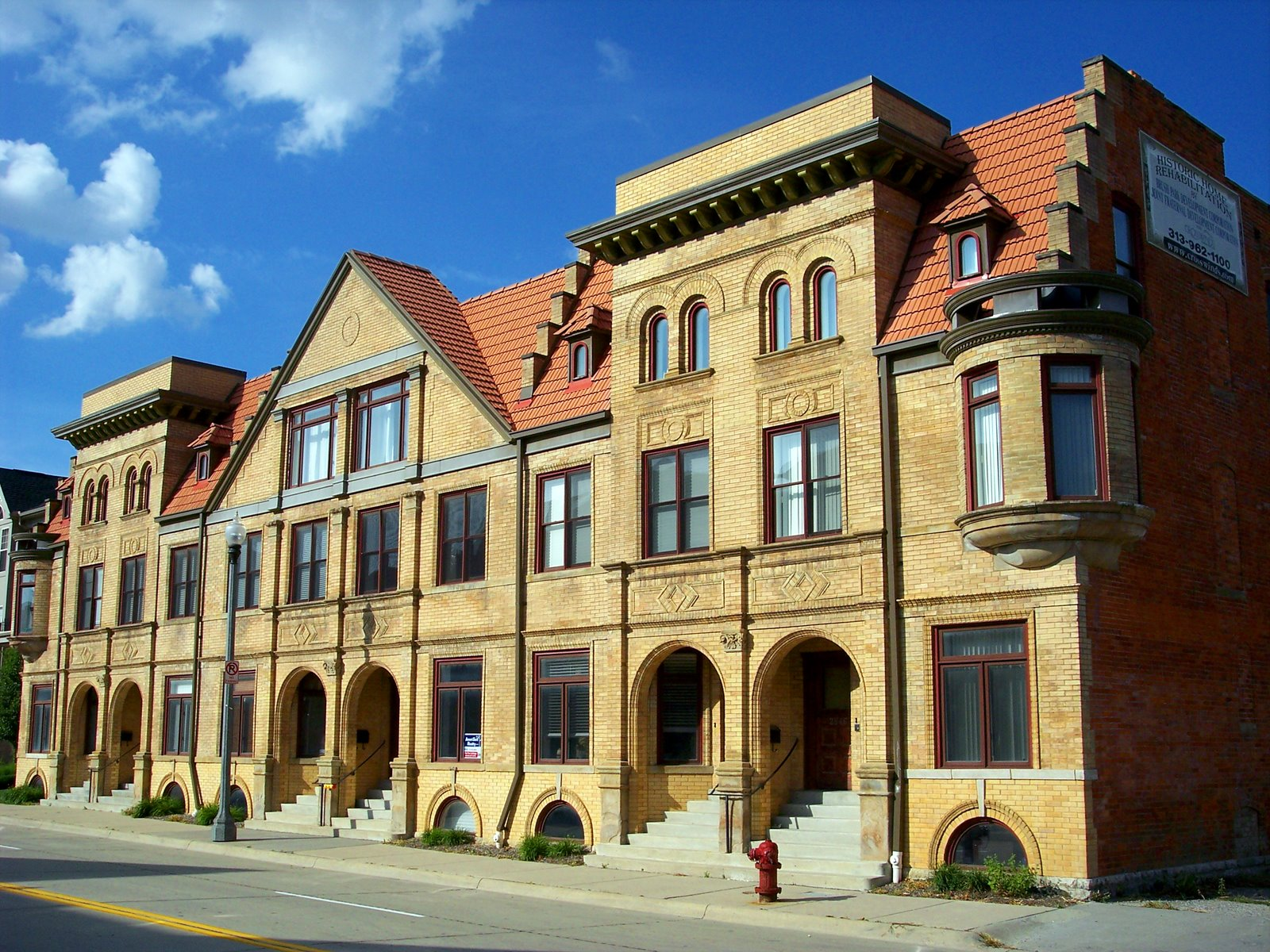 View of 1890 row houses, Detroit MI